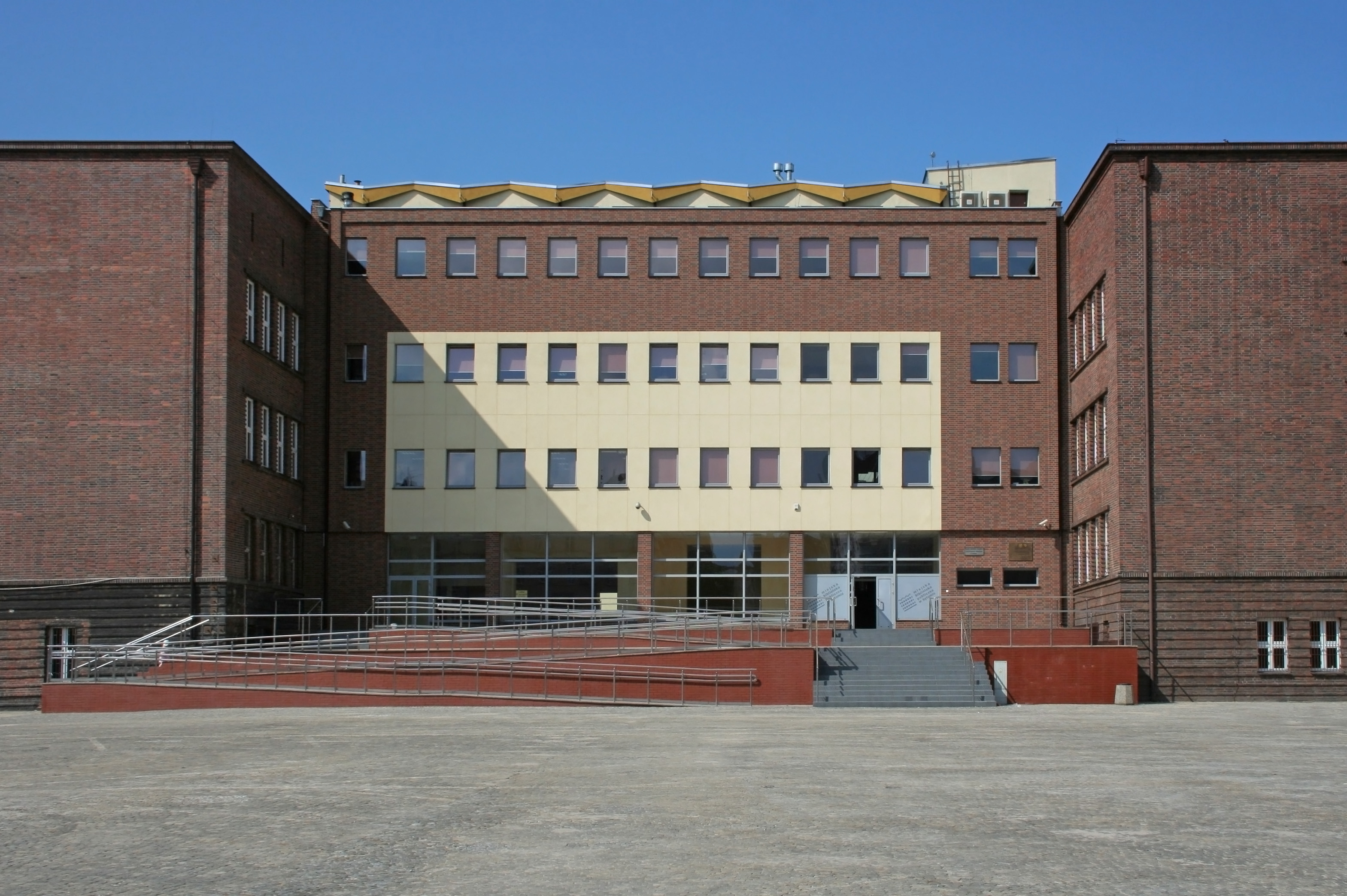 Public library in Bytom.